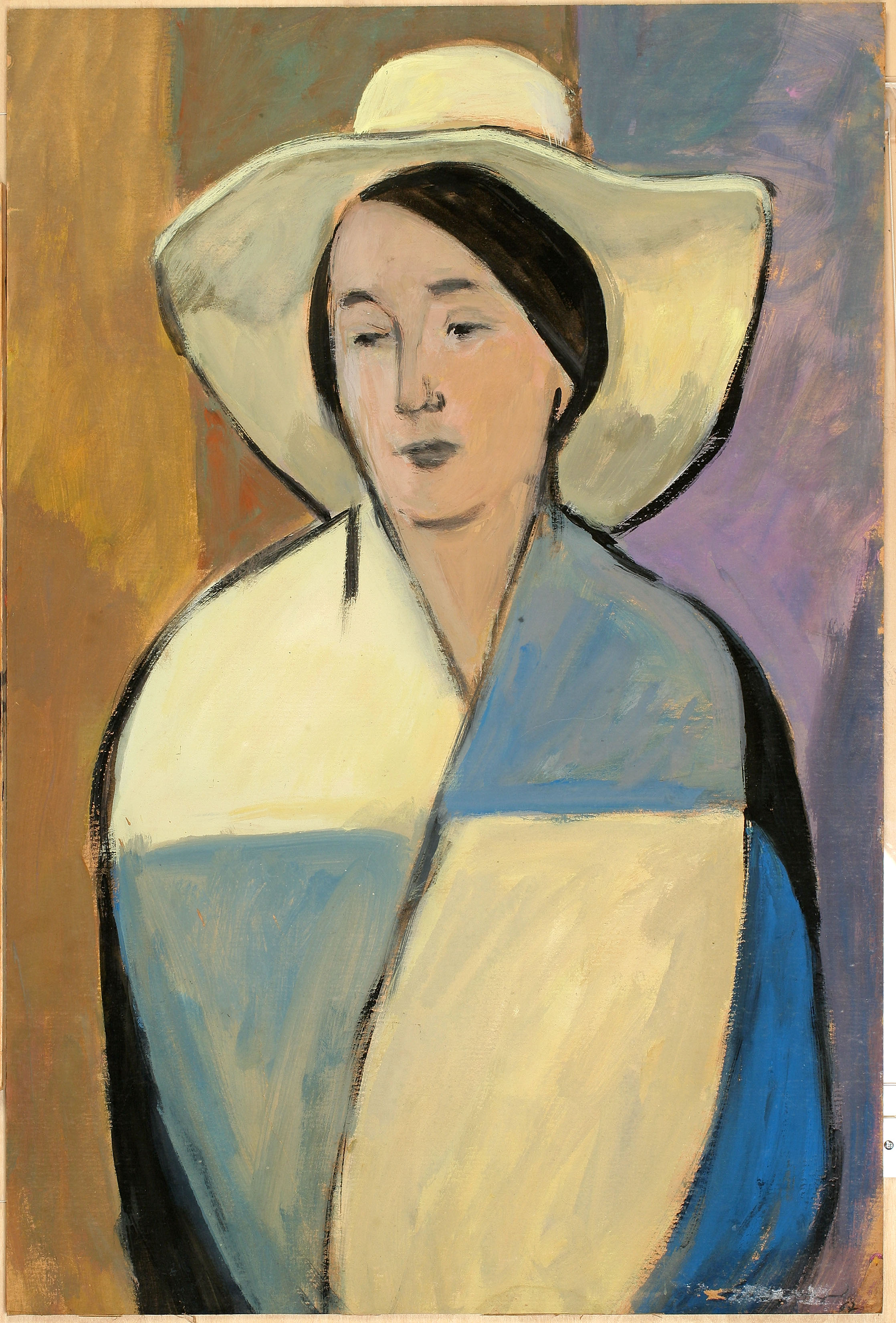 Meer Akselrod "Portrait of my wife in a white hat"